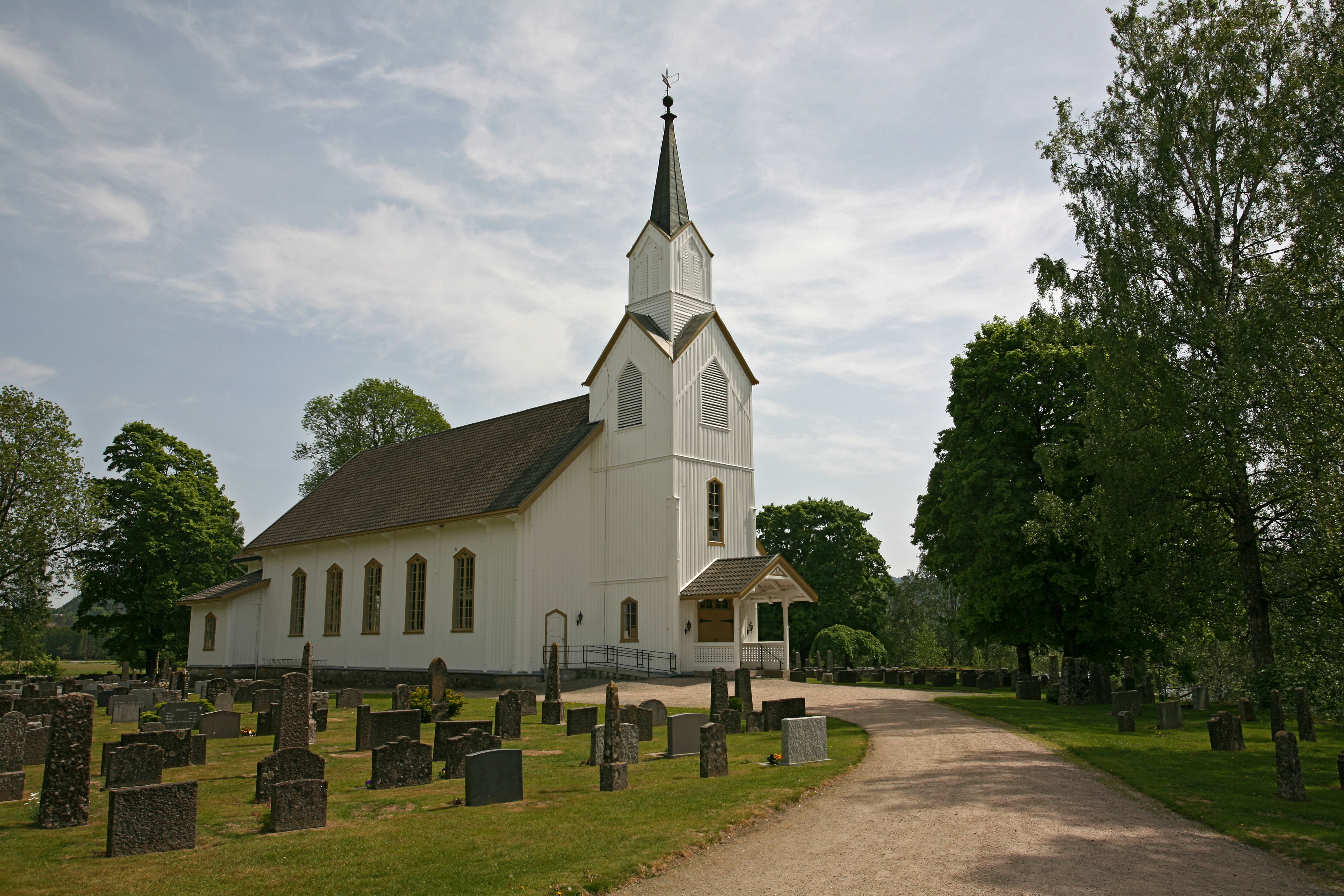 Picture of Lunde church in Nome (Telemark - Norway)